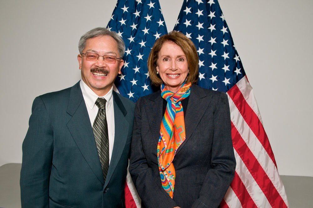 January 17, 2011 ~ Congresswoman Pelosi welcomes new San Francisco mayor Ed Lee.